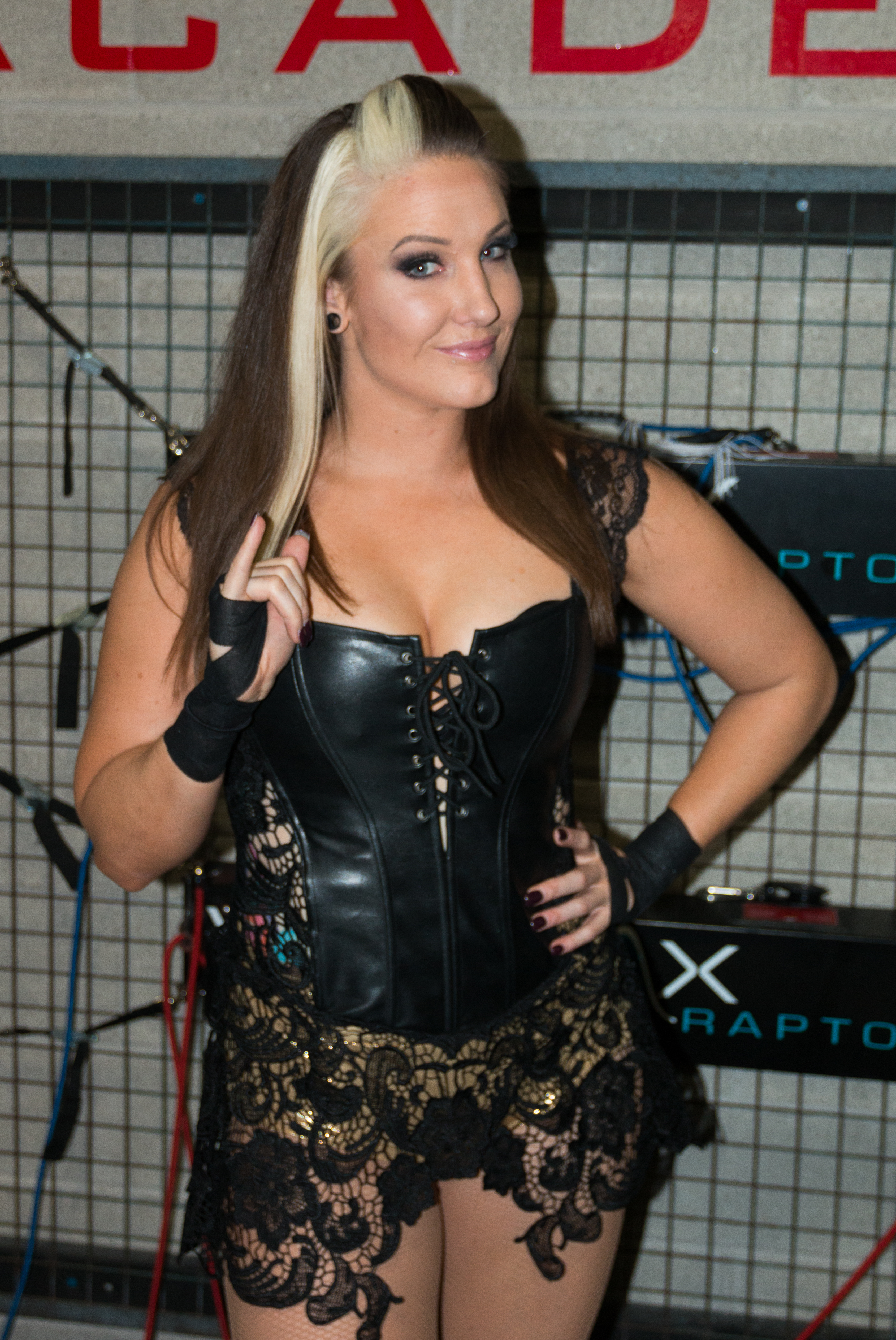 Pro wrestler Allysin Kay (aka Sienna in TNA) posing at intermission at a Destiny Wrestling show in Mississauga, ON